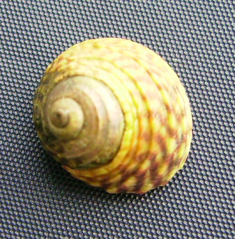 Diloma subrostrata subrostrata (speckled whelk), from Auckland, New Zealand. This work has been released into the public domain by its author, Graham Bould. This applies worldwide.In some countries this may not be legally possible; if so:Graham Bould grants anyone the right to use this work for any purpose, without any conditions, unless such conditions are required by law.